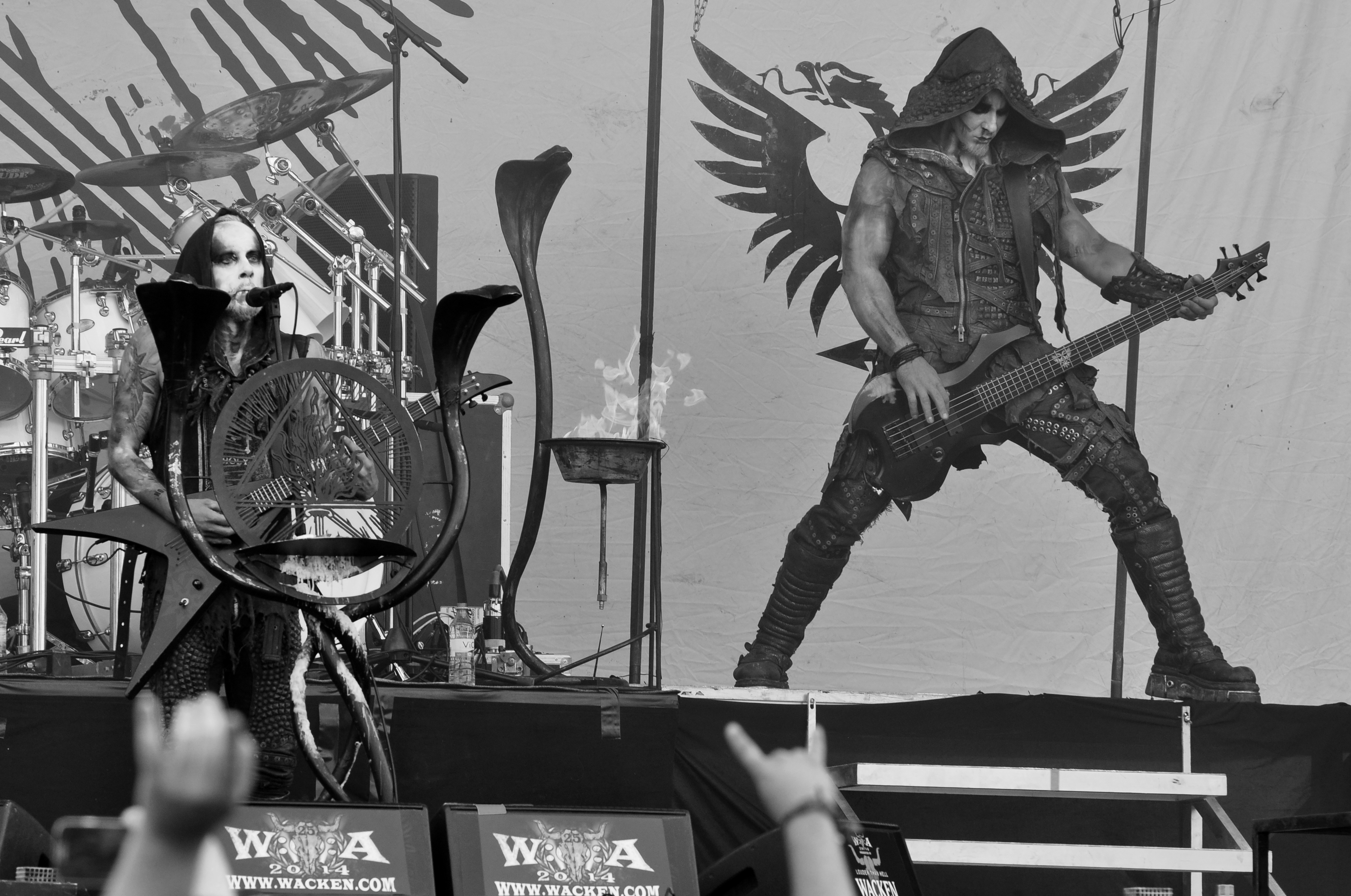 Behemoth at Wacken Open Air 2014